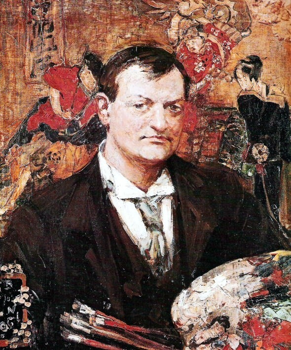 E.A. Hornel